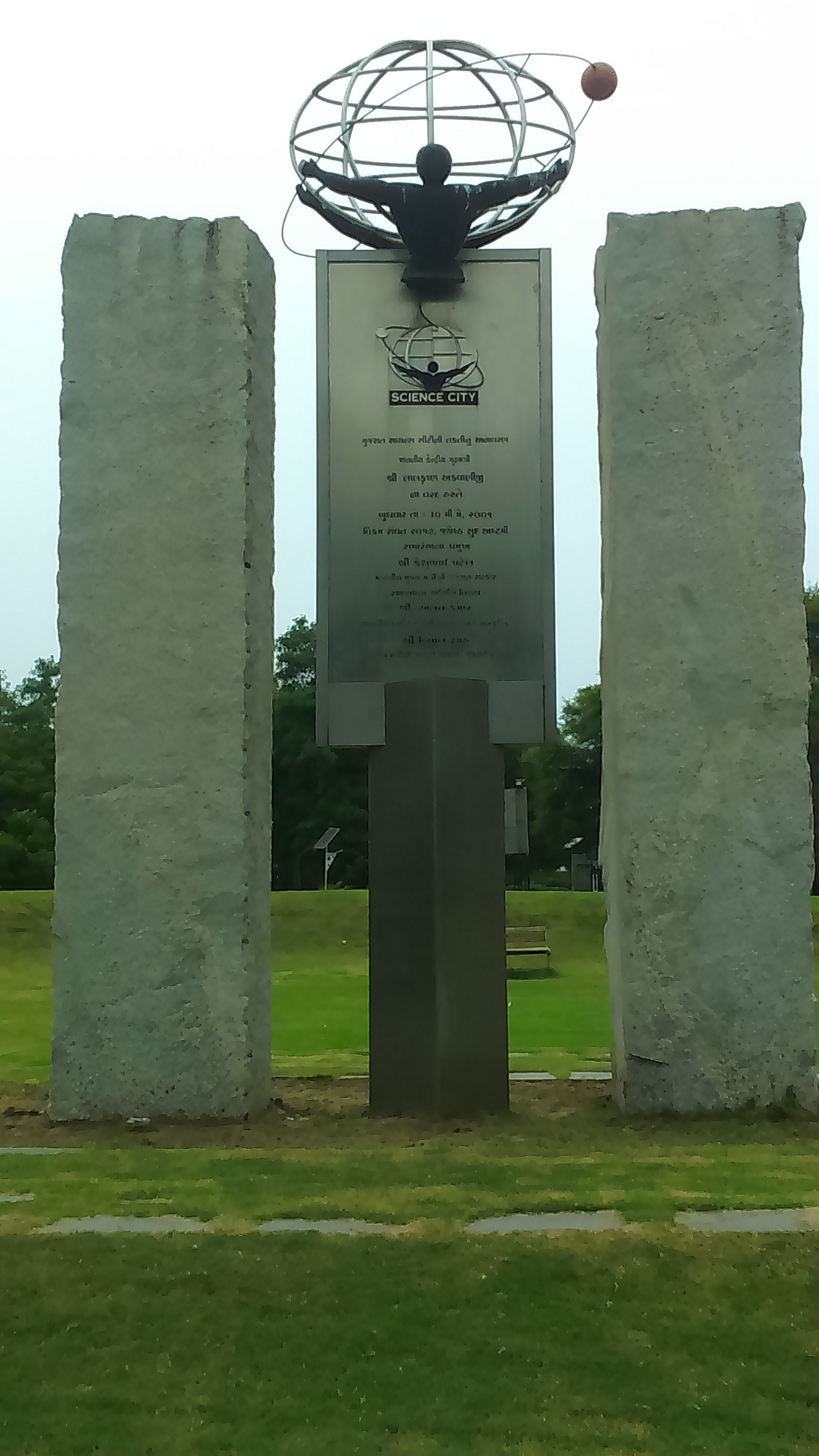 statue at science city